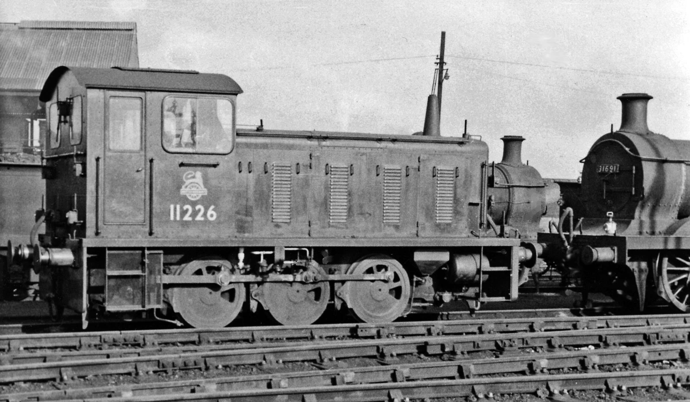 Drewry 204hp 0-6-0 Diesel-mechanical shunter at Hither Green Depot. Small Drewry shunter of a type introduced by BR in 1952-55. In 1960 there were still locomotives as well at Hither Green - two C class 0-6-0's are visible. (See also TQ3974 : BR Standard 350 hp 0-6-0 Diesel-electric shunter at Hither Green Depot and TQ3974 : Ex-SR 0-6-0 Diesel-electric shunter at Hither Green Locomotive Depot).